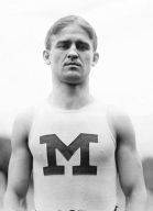 Archie Hahn Chicago Daily News negatives collection, SDN-002410. Courtesy of the Chicago Historical Society. Taken in 1904 ( Immagine:Archie-Hahn.jpg